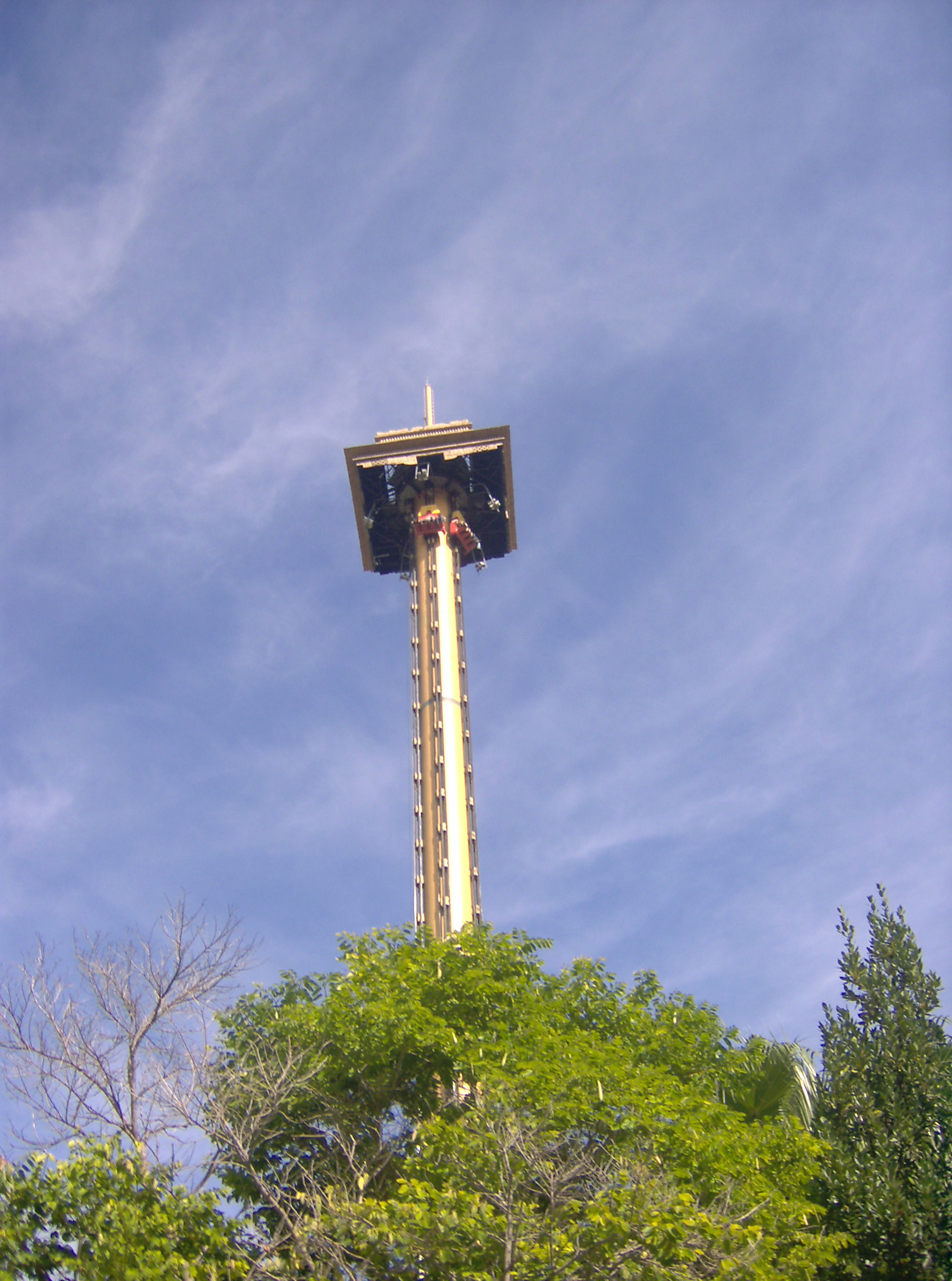 Hurikan Condor in PortAventura